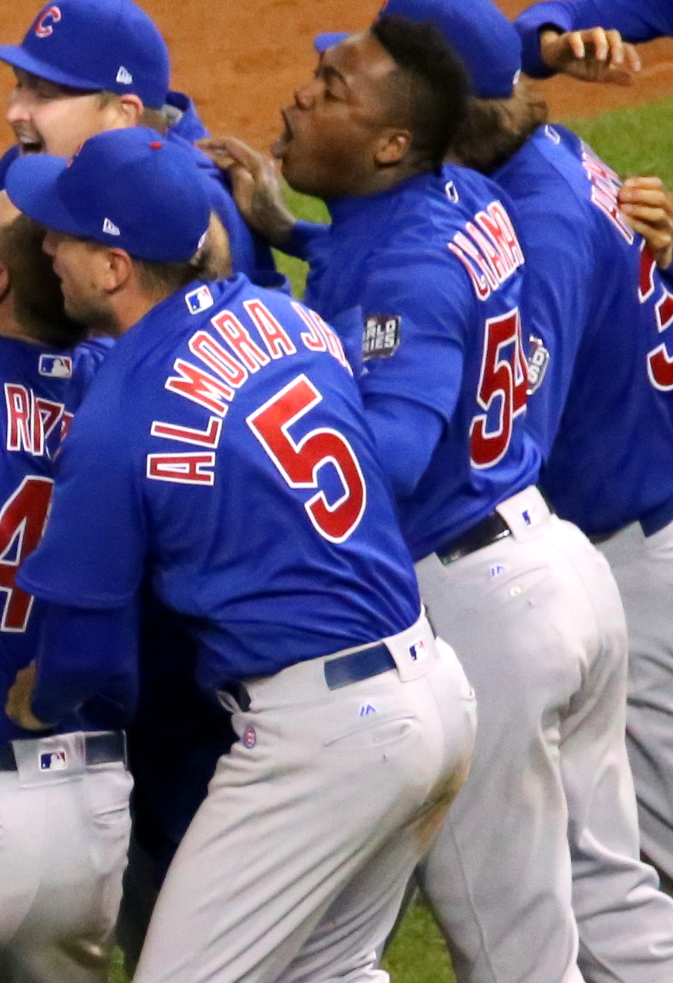 The Cubs celebrate after winning the 2016 World Series.